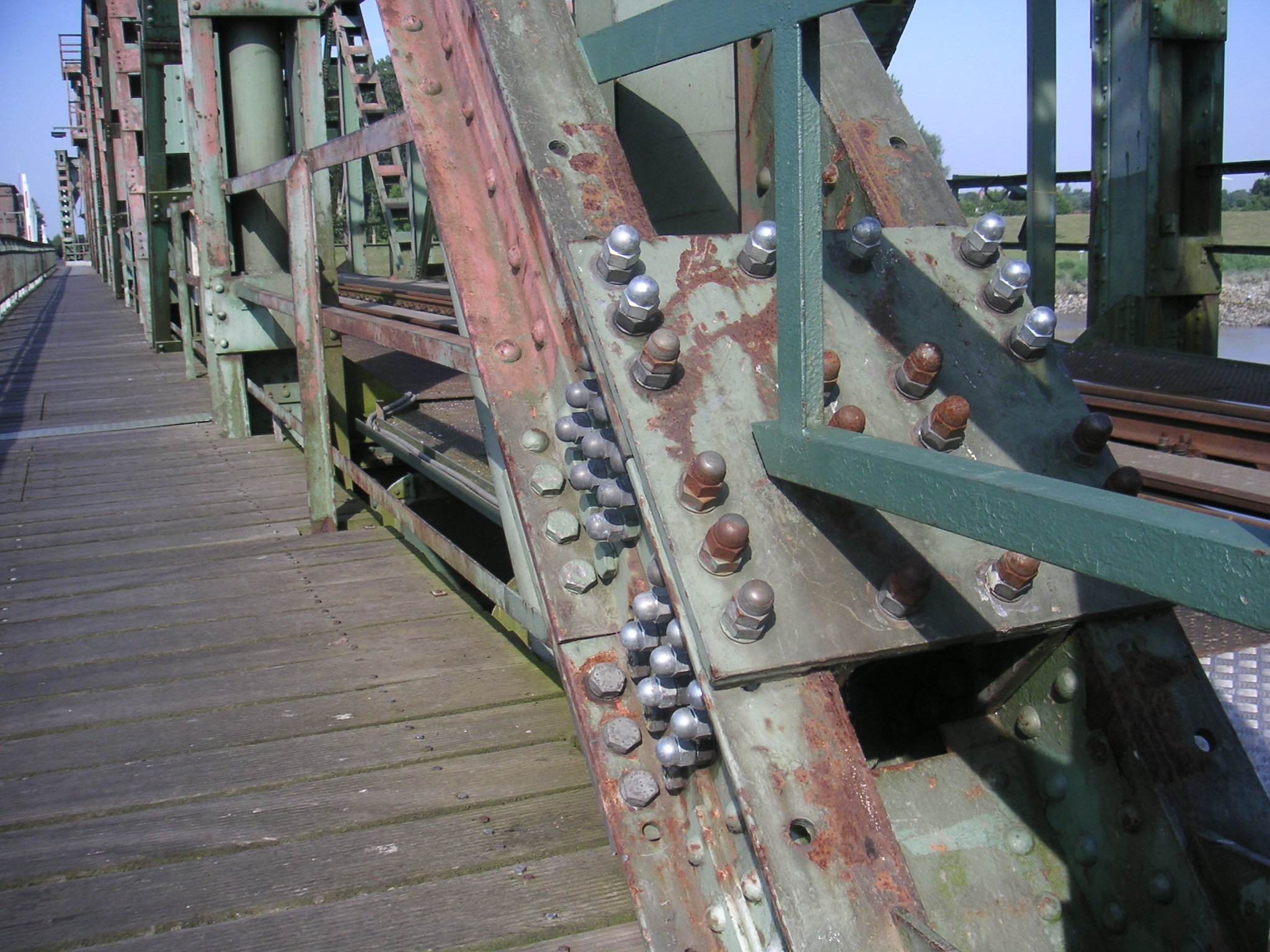 Picture of the big bolts at the Friesenbrücke over the Ems